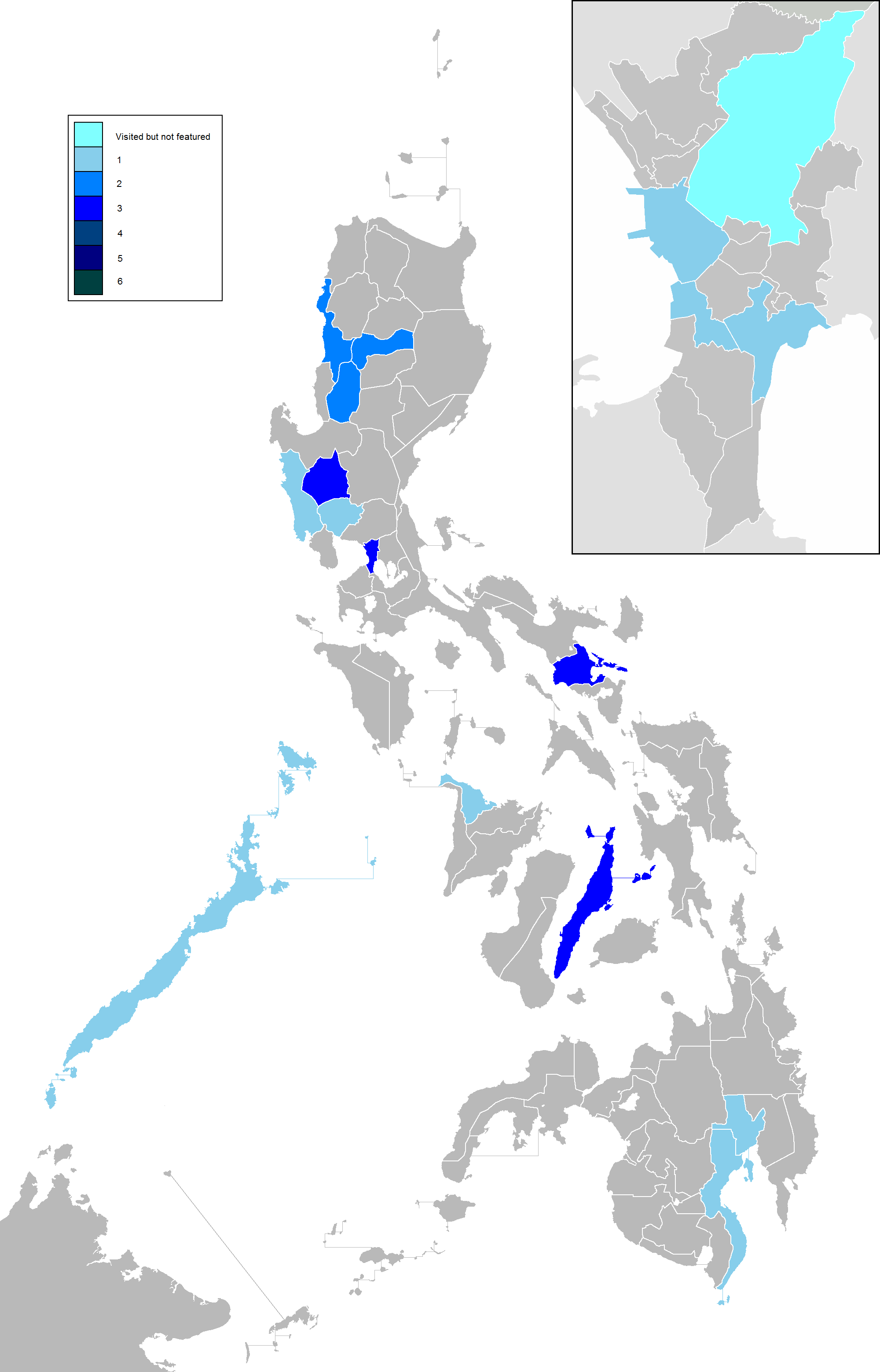 The Amazing Race Philippines map showing legend colors of the number of the total cities and municipalities in a province visited and featured in the show. The map includes an inset of the political subdivision of Metro Manila. The Philippine map and the inset map of Metro Manila are all based from TheCoffee's works and were released to public domain.